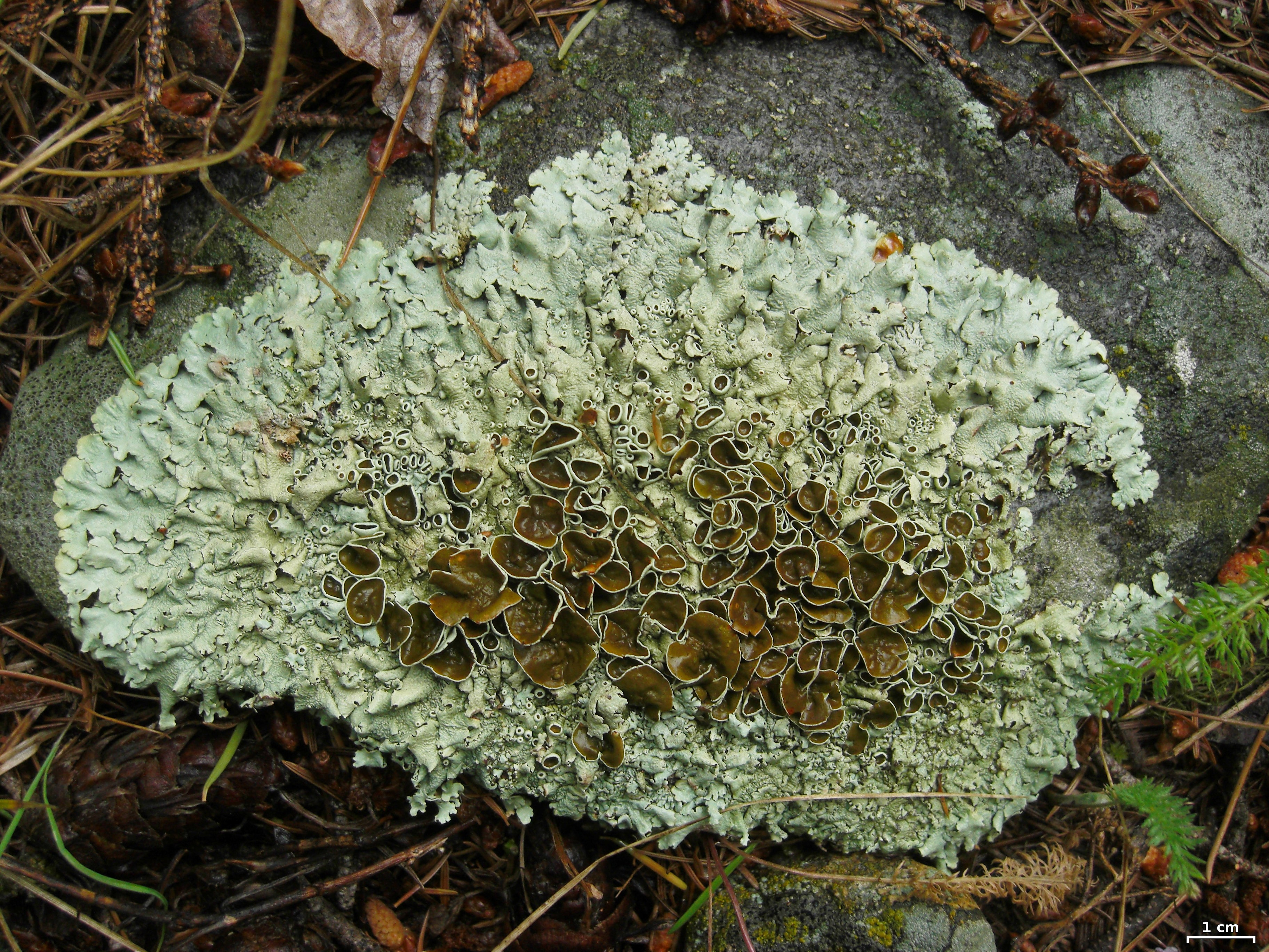 West Butte, Sweetgrass Hills, Montana, 20110714